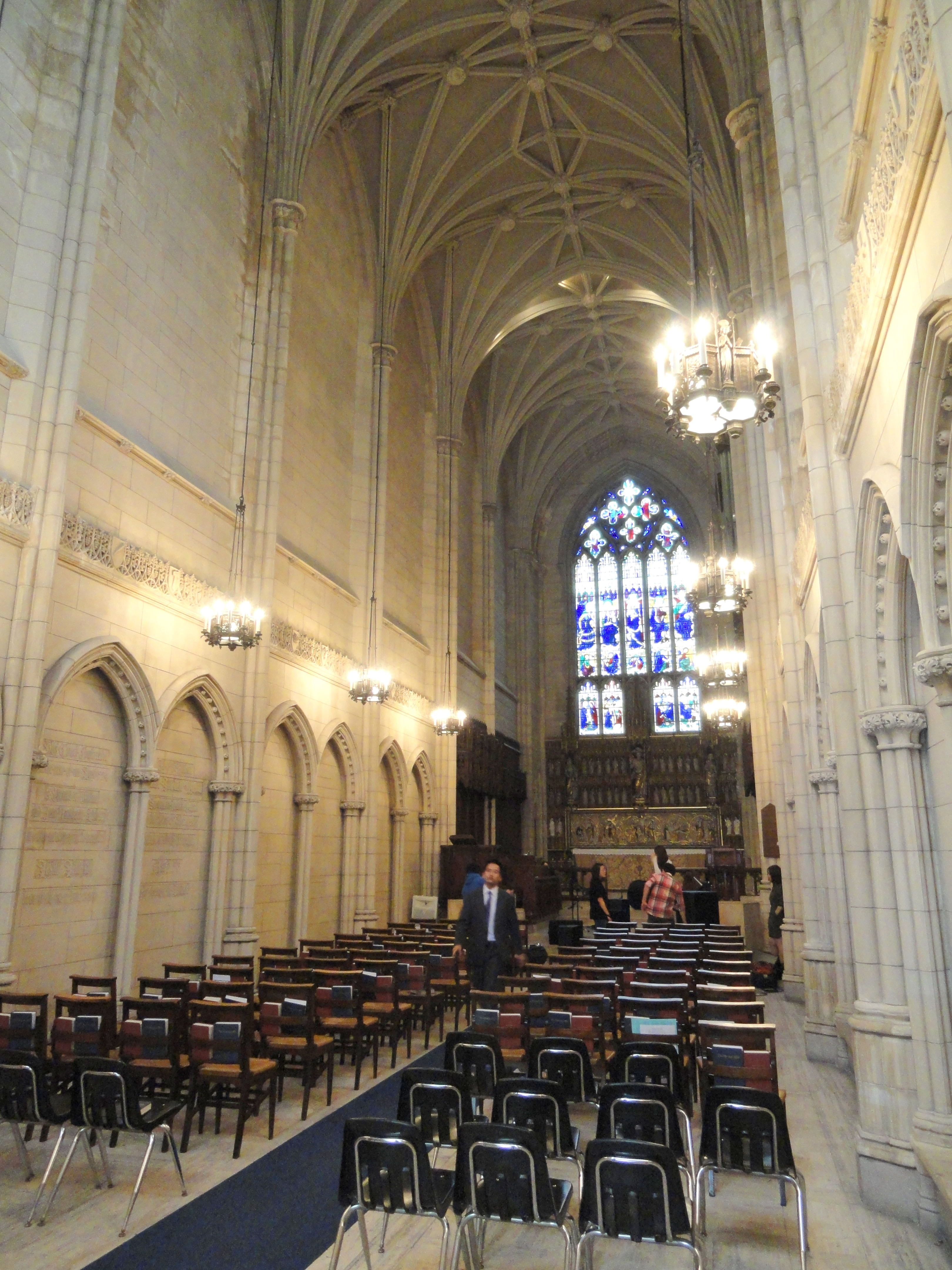 Interior of Emmanuel Episcopal Church, 15 Newbury Street, Boston, Massachusetts, USA.